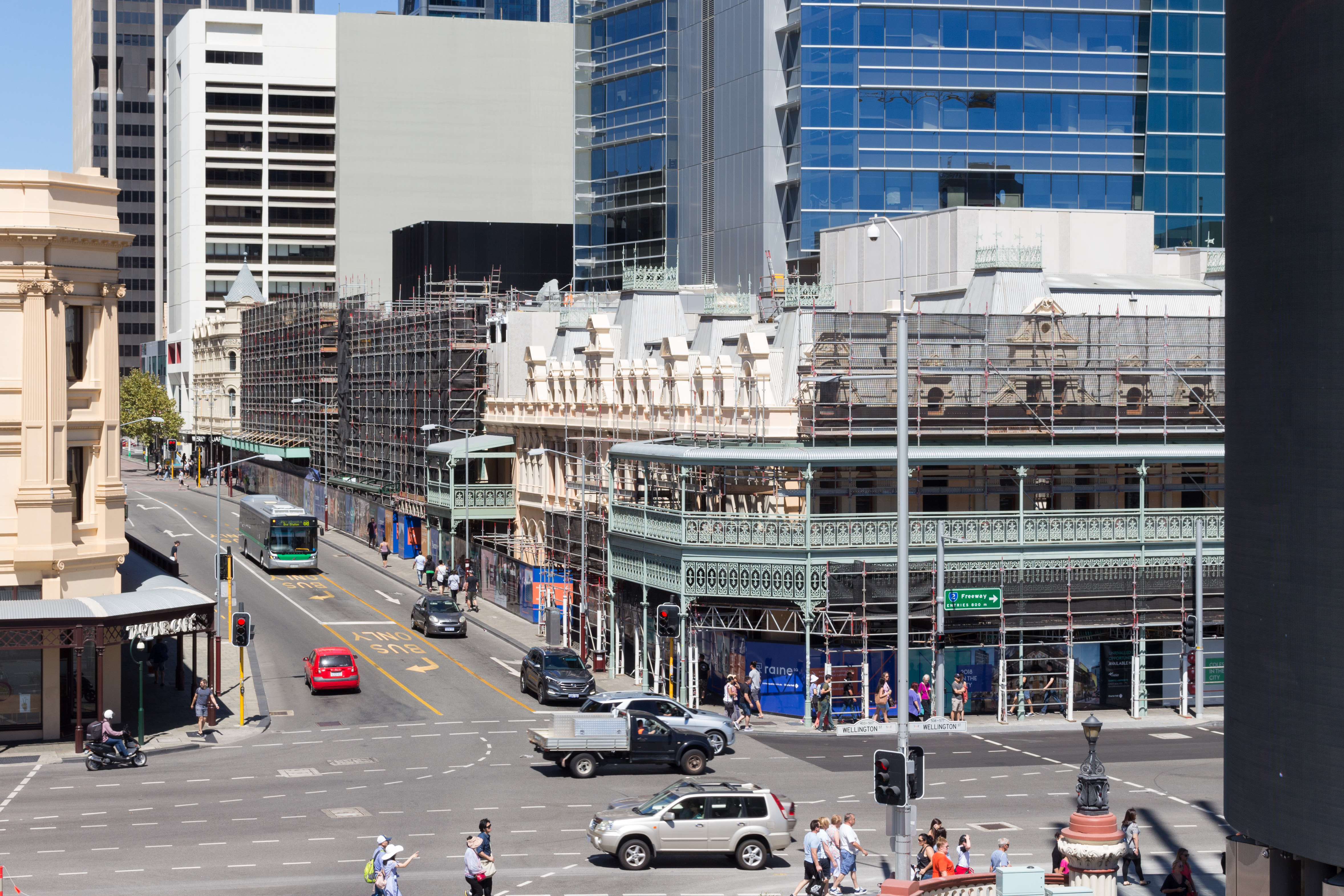 Raine Square undergoing redevelopment in March 2018. Photographed from Yagan Square.